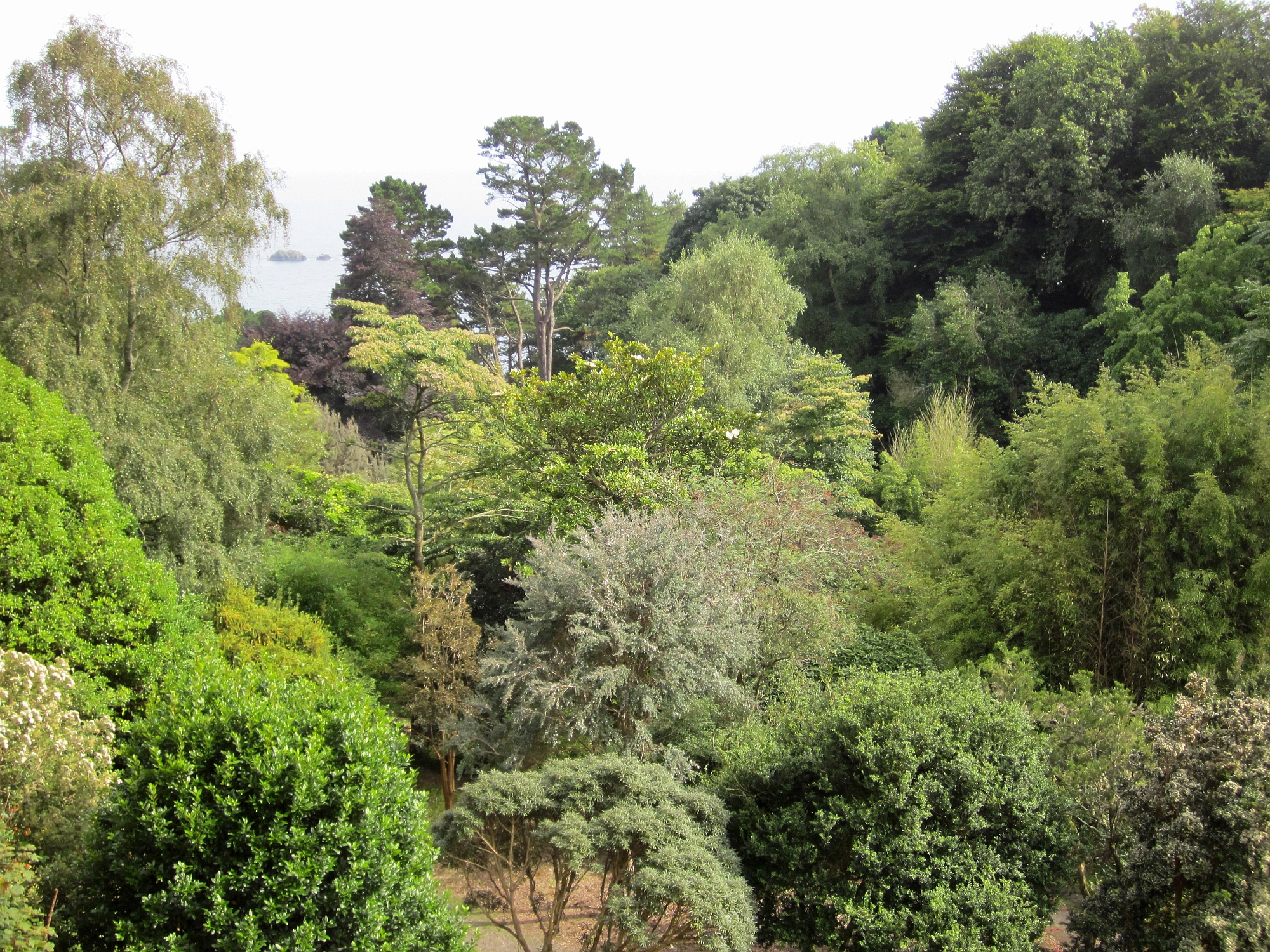 Coleton Fishacre House and Garden in Devon UK